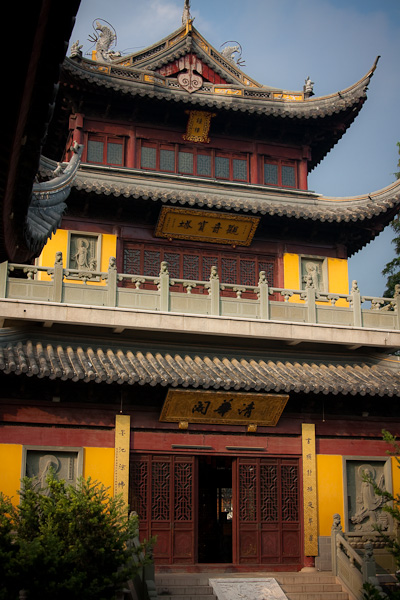 Yuanjin Monastery in Zhujiajiao, Qingpu, Shanghai, China. Photographer: Me (Hugi Asgeirsson) Taken September 24th, 2009.